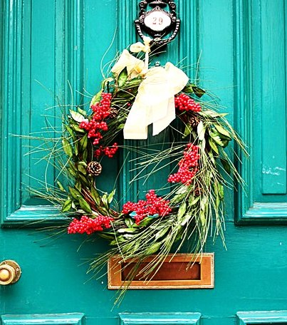 Christmas Wreath Seasonal decoration on a Bailgate door